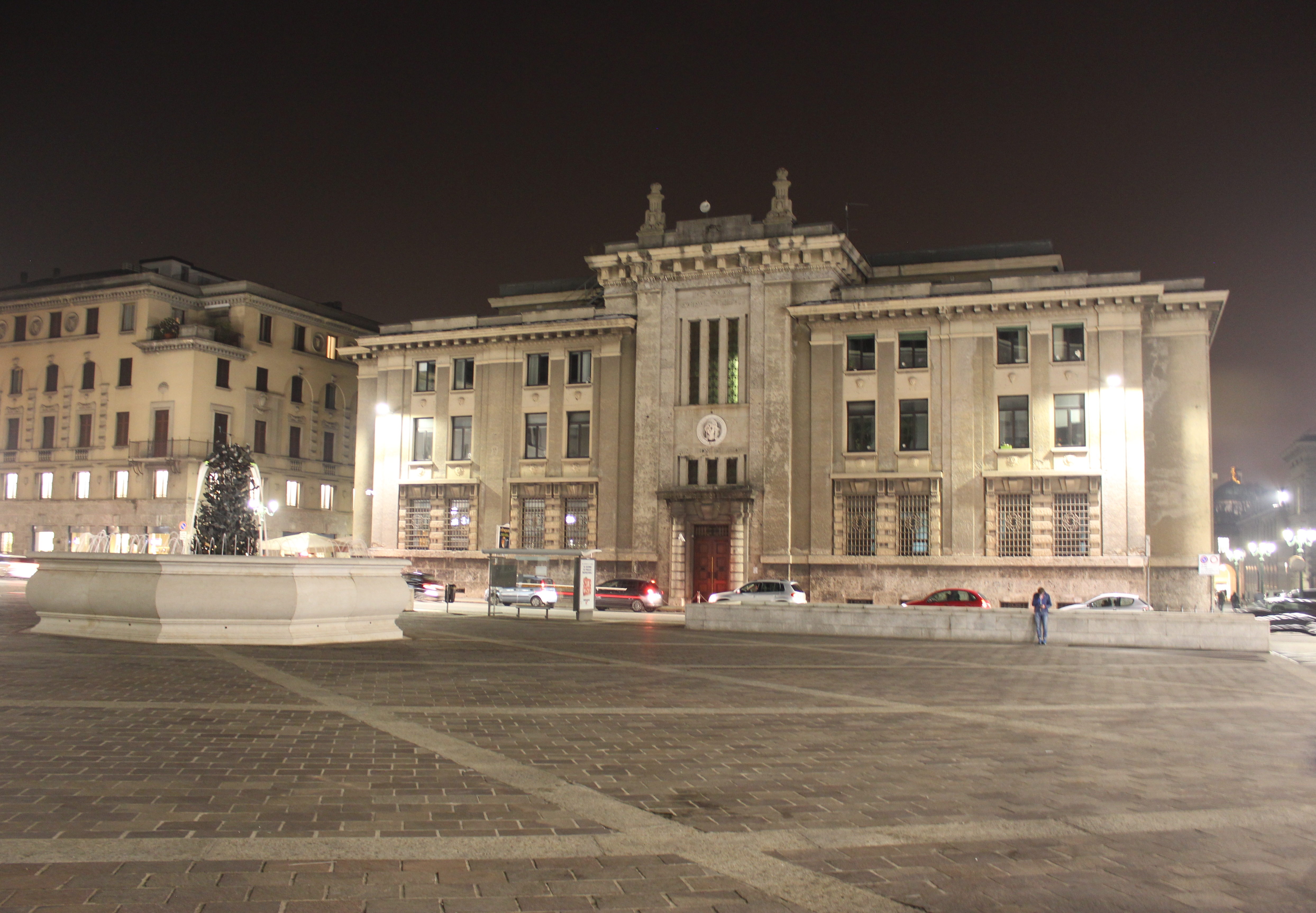 Bergamo - Palace of Justice, Piazza della Libertà